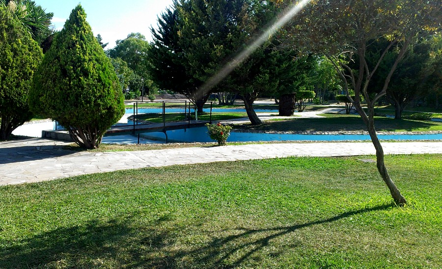 nikaia